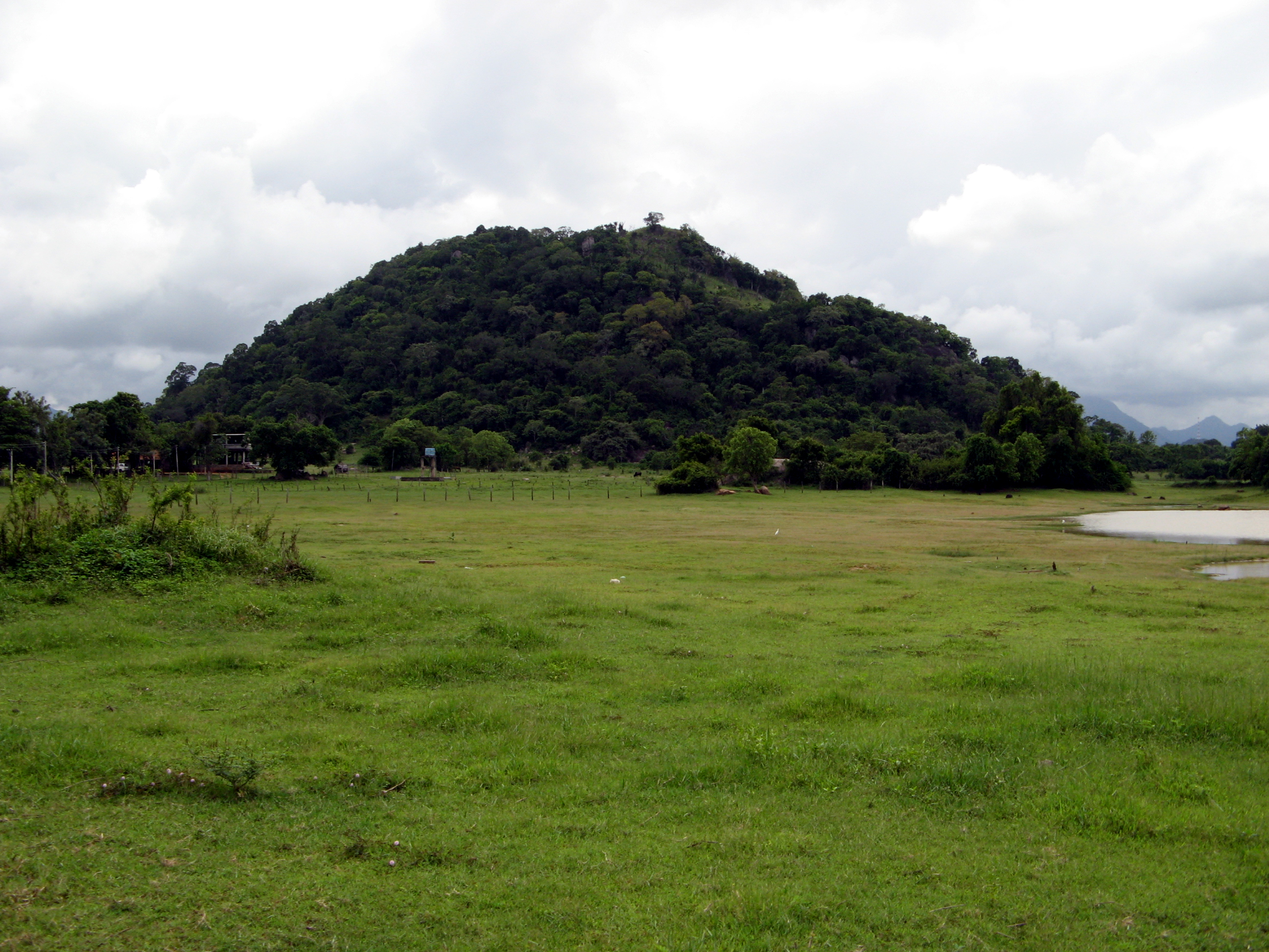 This view of Ibban Katuwa, an Early Iron Age site, illustrates a typical prehistoric landscape that includes: (1) a source of lithic resources (rocks), such as the inselberg seen here; (2) a source of water (in this case, runoff from the hill); and (3) pastureland. The Early Iron Age in Lanka was introduced from India in about 1000 BC. Its cultural innovations included sedentism (settling down in villages, which replaced the nomadic hunter-gatherer lifestyle); plant and animal domestication; small-scale irrigation; stone- and metal- work; production of pottery and beads; and new burial rituals.